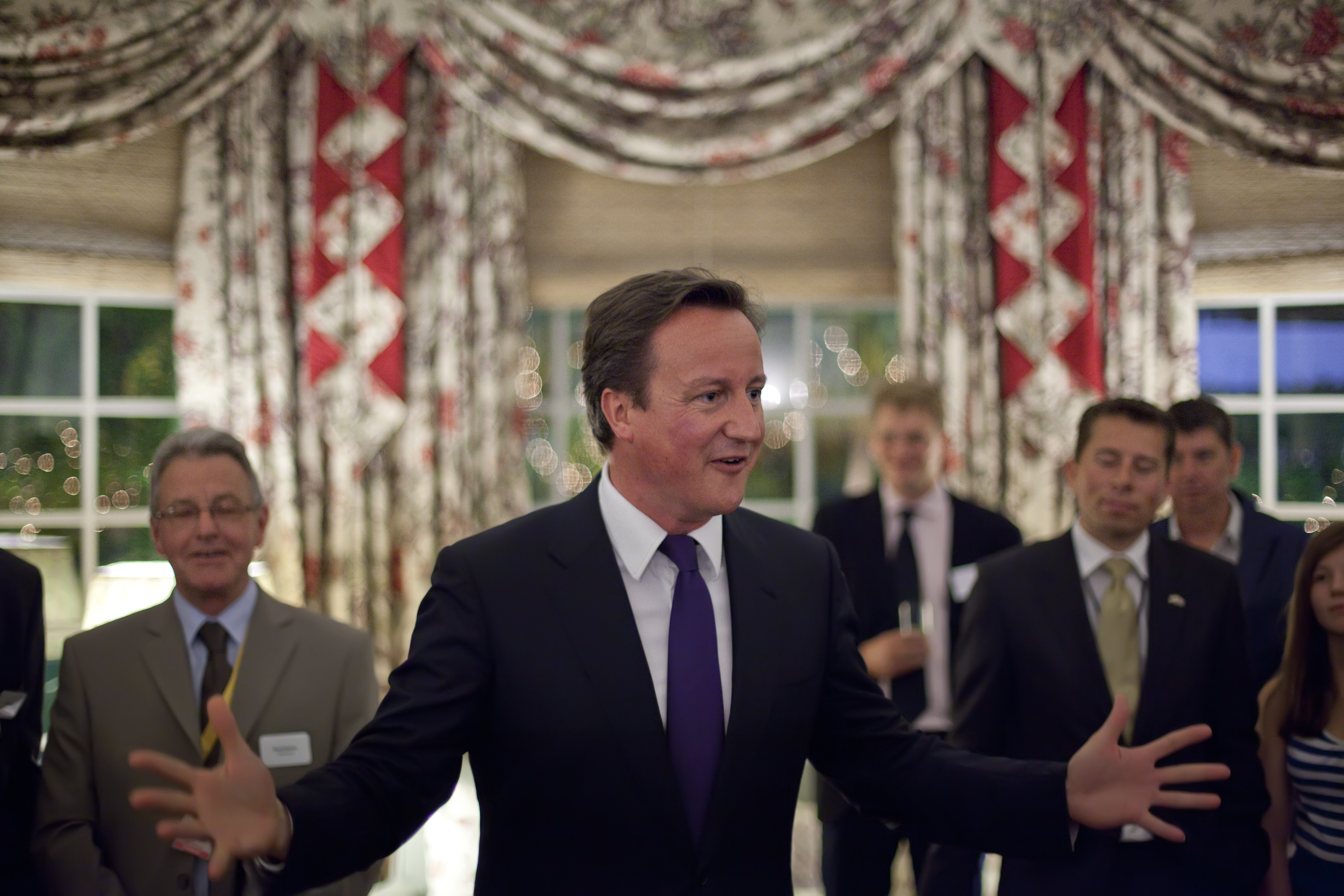 David Cameron in India